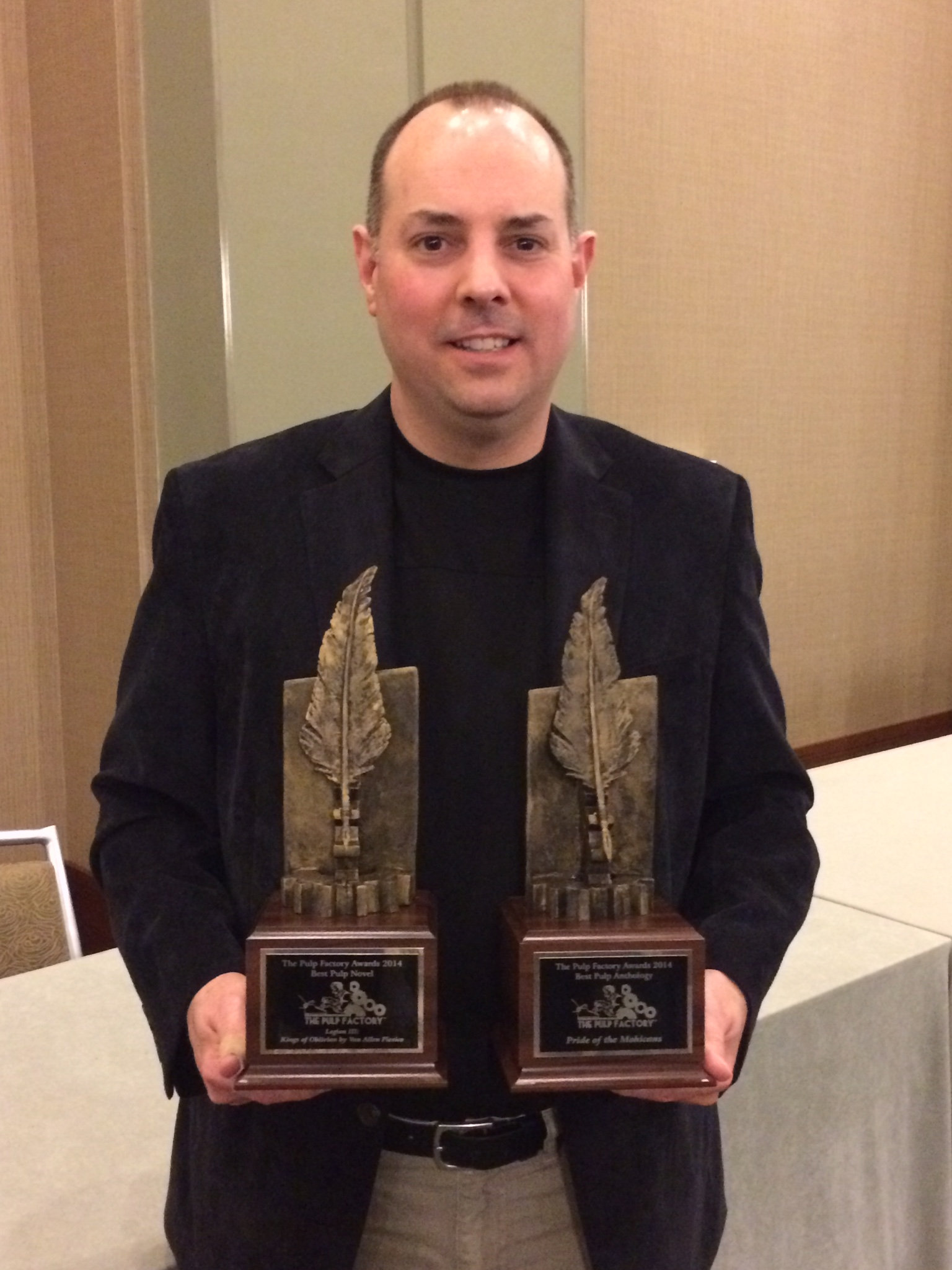 Photo of Van Allen Plexico with Pulp Factory Award trophies at Windy City Pulp Con in 2015. Photo by user, permission given by Plexico.